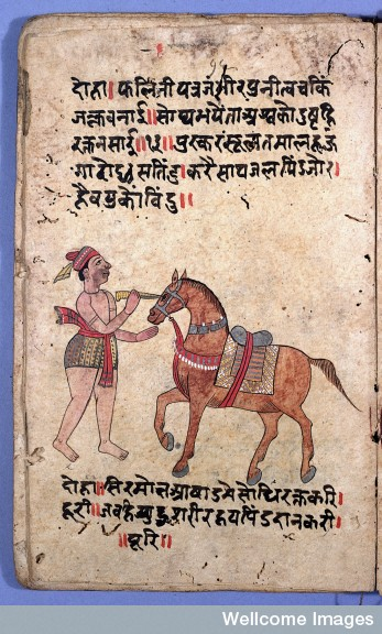 L0014698 Credit: Wellcome Library, London Eye operation on a horse Illustration and Text 18th Century From: Salihotra (Hindi): Asvacikitsa of Purusottama [treatise on horses] Collection: Asian Collection Copyrighted work available under Creative Commons by-nc 2.0 UK: England & Wales